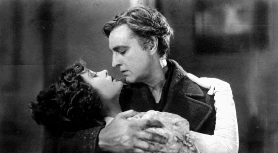 Dolores Costello and John Barrymore in the 1926 film The Sea Beast. The scene is seen on the linked ad for the film.